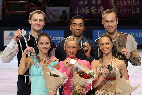 Vera Bazarova / Yuri Larionov (2), Aliona Savchenko / Robin Szolkowy (1), Maylin Hausch / Daniel Wende (3) at the 2010 Trophy Eric Bompard.